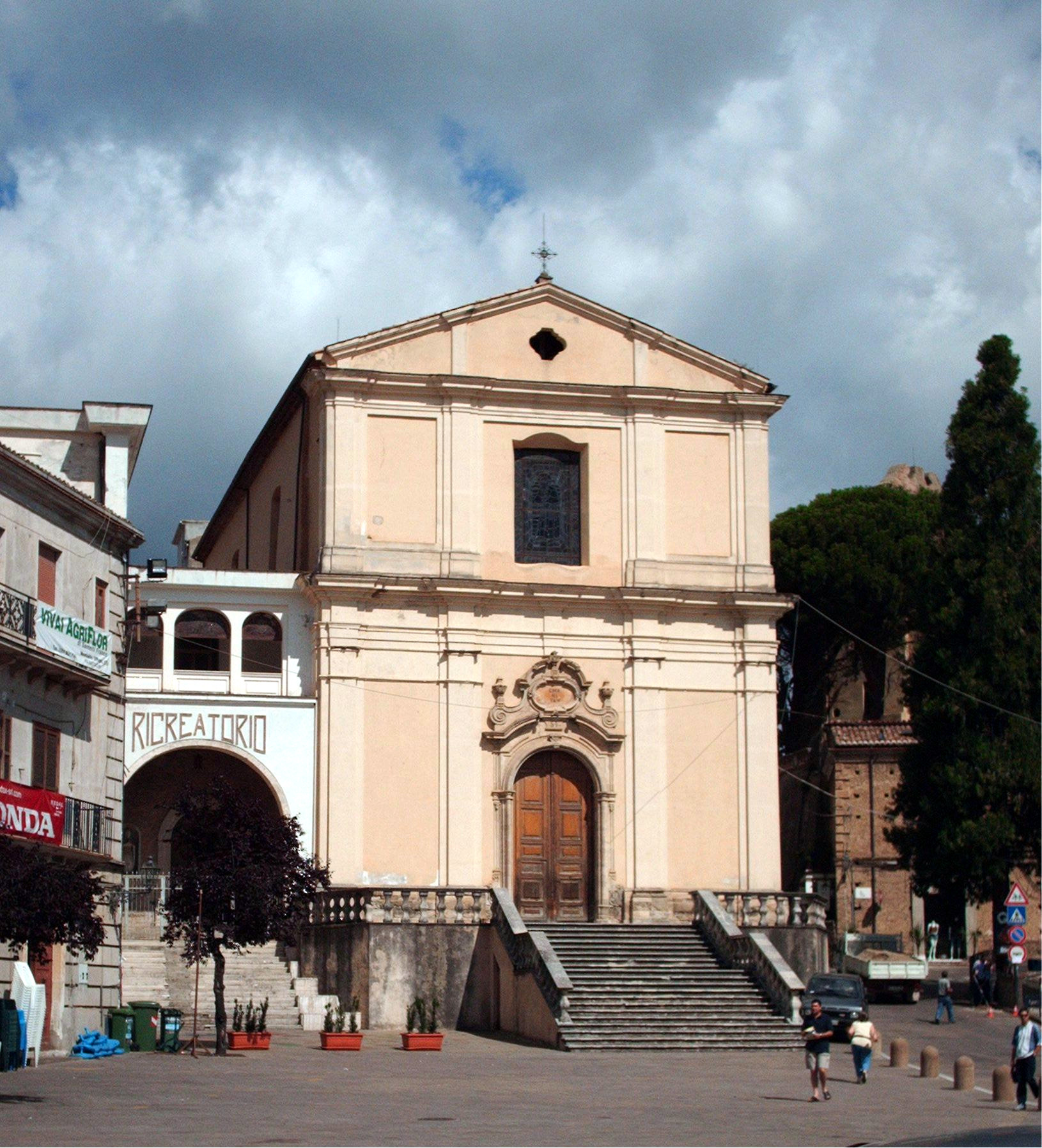 Church of Saint Francis of Paula in Montalto Uffugo